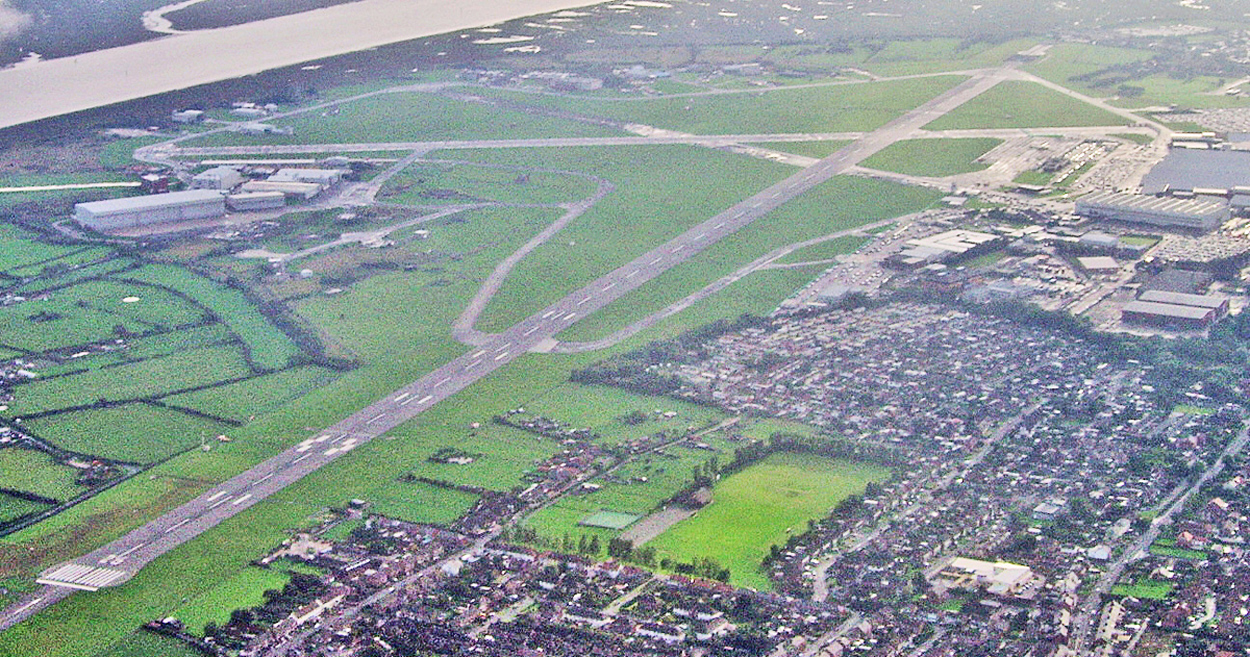 Warton Aerodrome looking SSW in 2006